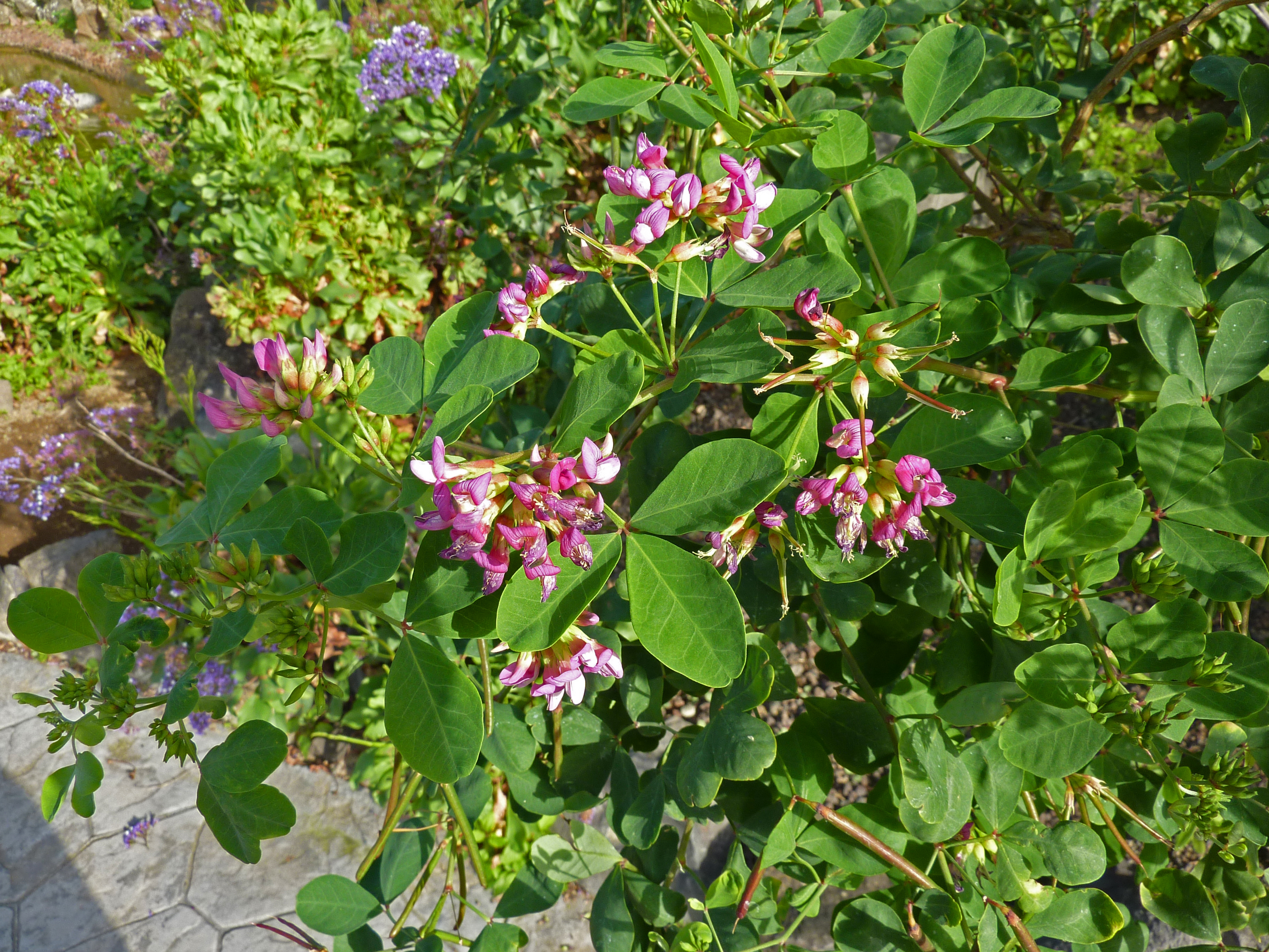 Dorycnium spectabile in the Jardín Botánico Canario Viera y Clavijo.